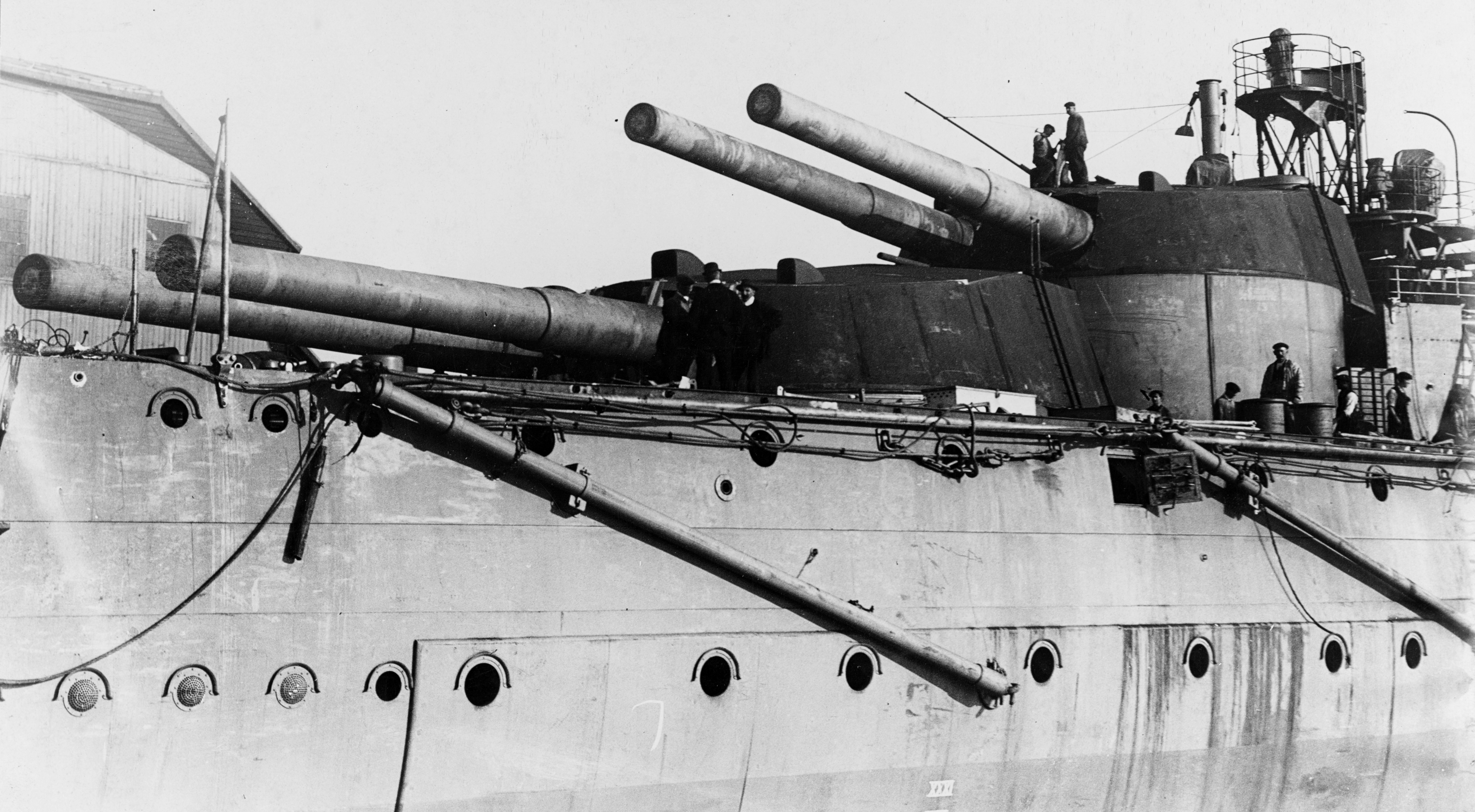 Aft main-gun turrets of HMS Orion, circa 1911